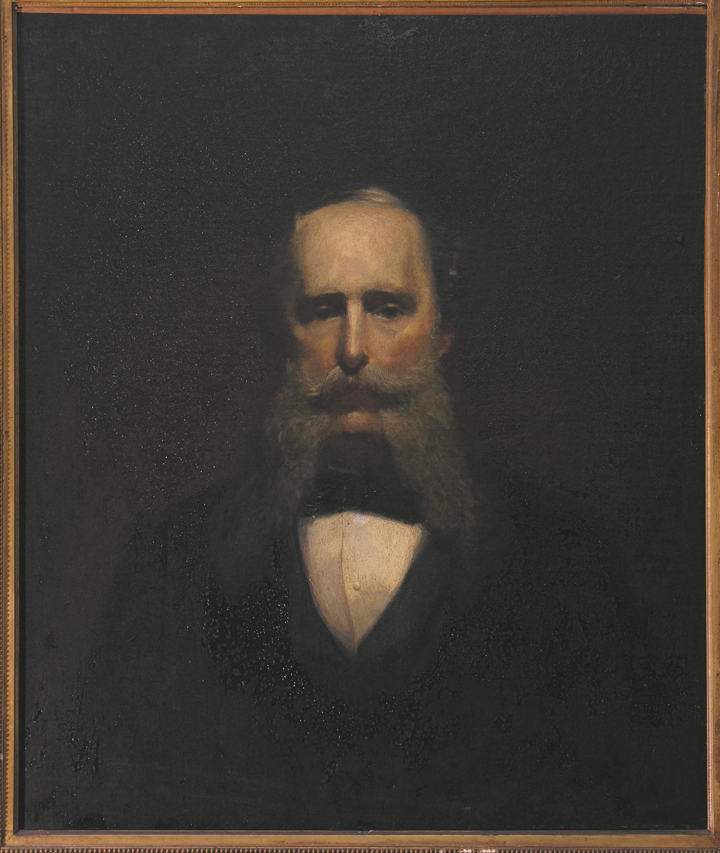 John Welsh, Minister Plenipotentiary to the Court of St.James painted by his son, Herbert. From the collection of Andrew Imbrie Dayton